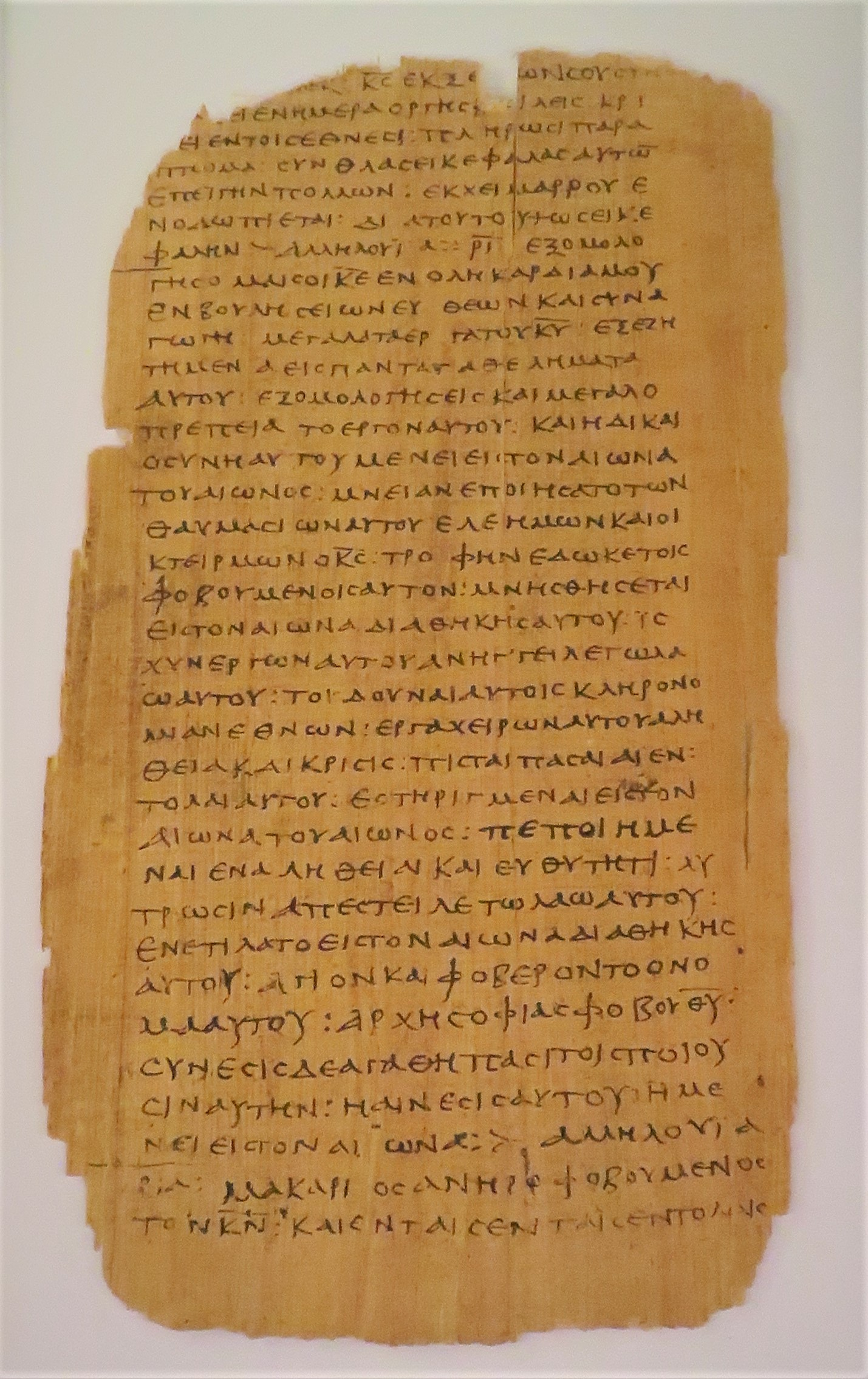 leaf from Papyrus Bodmer XXIV in the Museum of the Bible, containing Psalm 109:16-112:1; 2019